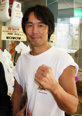 Yūichi Kasai at Teiken Boxing Gym in 2010. He is the Japanese boxing trainer who guided Toshiaki Nishioka, Akifumi Shimoda and Toshiyuki Igarashi to the world titles.